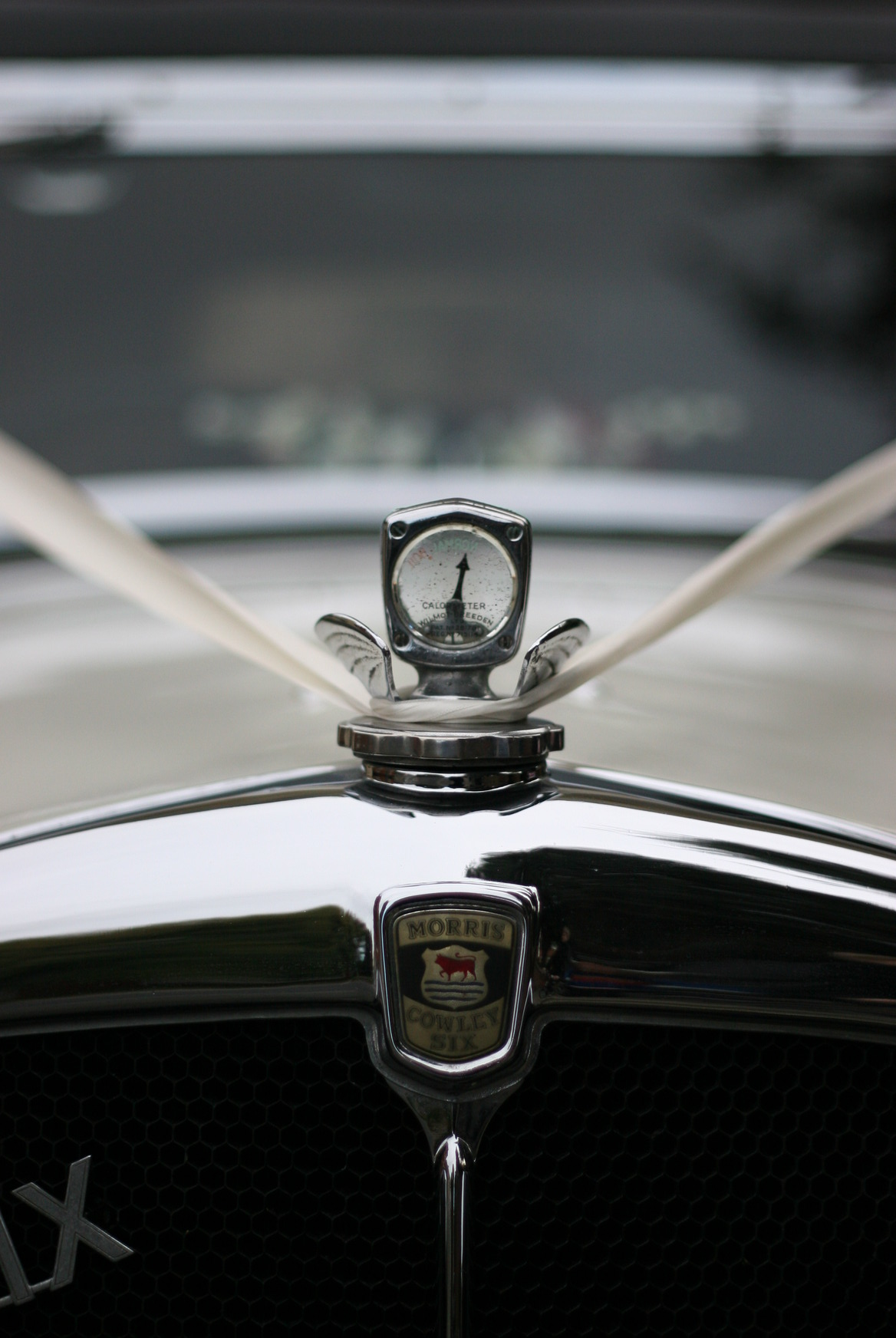 Morris Cowley Six badge St. Helen's Church, Abingdon